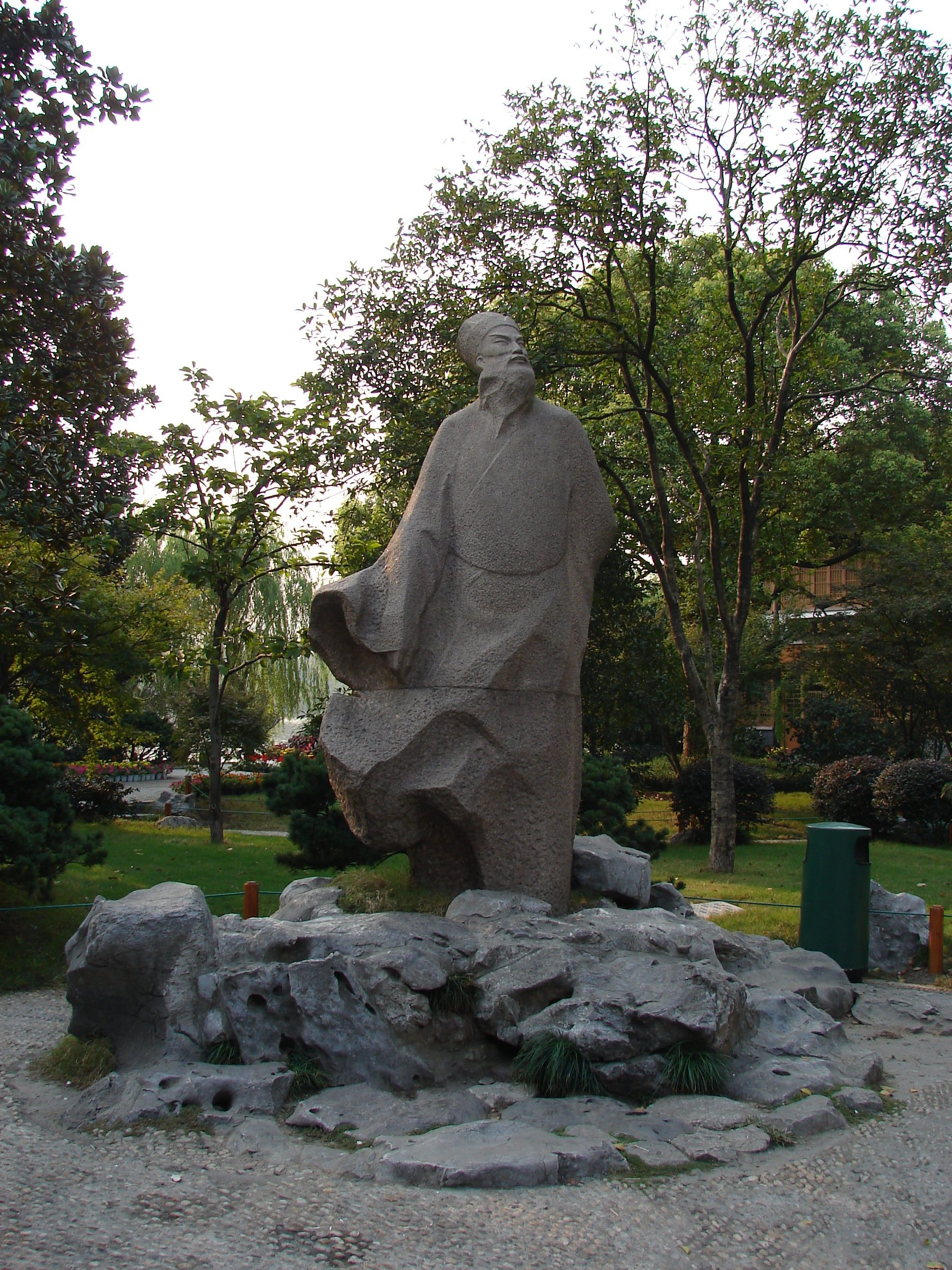 Su Dongpo (1037-1101) Chinese writer, poet and governor, Statue near Sudi walk way, West Lake, Hangzhou